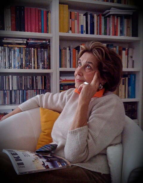 Ida Coppini, italian painter (XX-XXI)